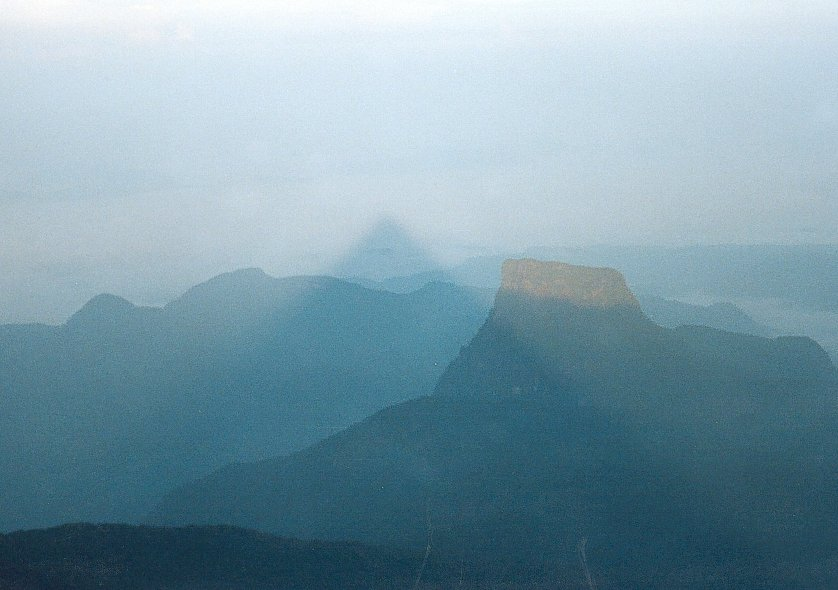 From the summit of Adam's Peak one can see the mountain's shadow in the mist to the Western side shortly after sunrise.